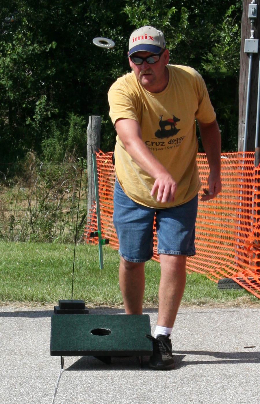 A man tosses a washer during a "washoo" (washer pitching) tournament at Summerfest, a community event in the small town of Pine Village, Indiana.